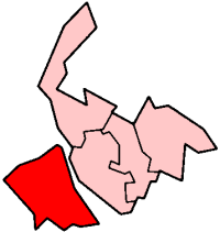 Map showing borough of Wirral within Merseyside.